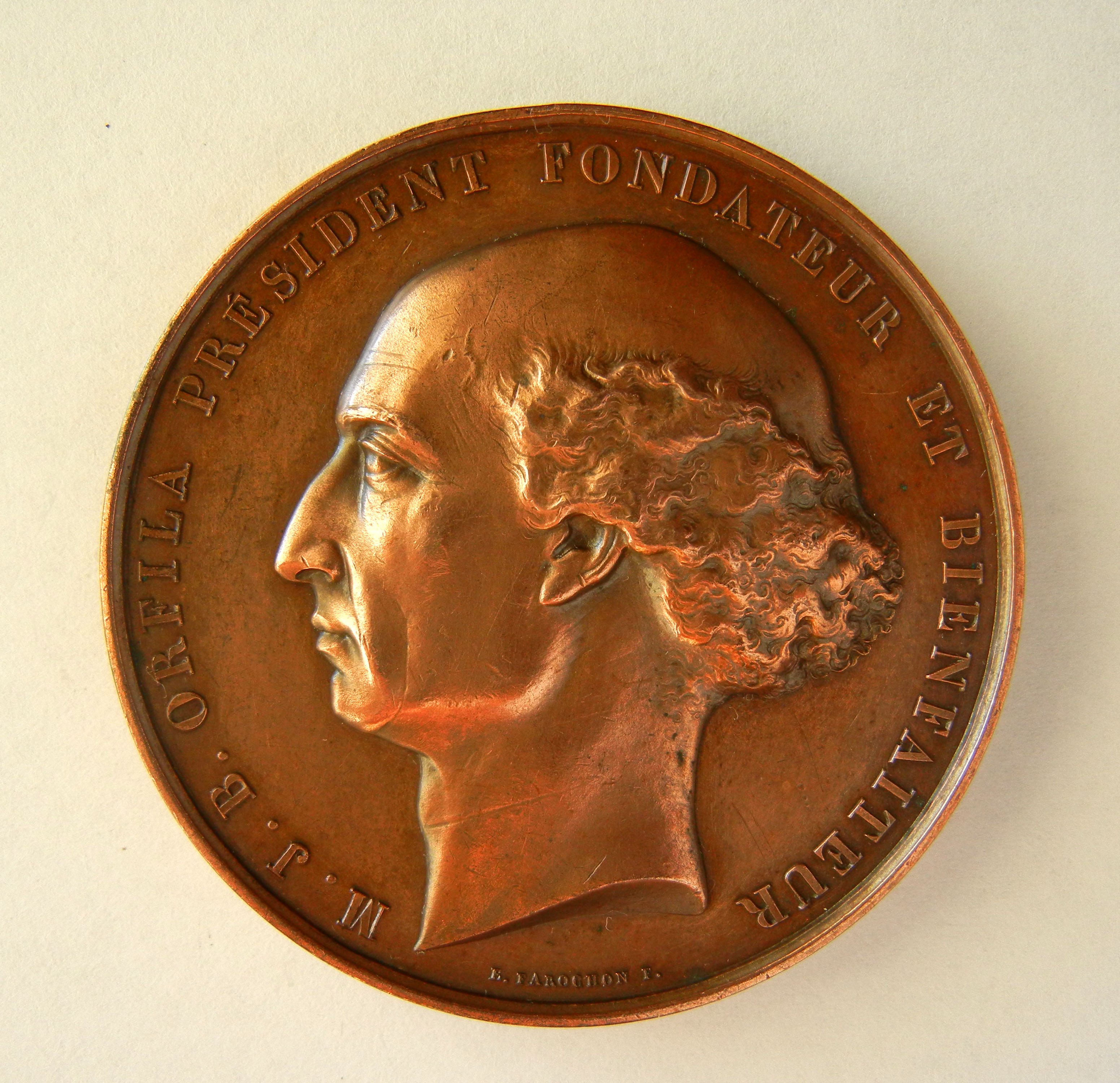 medal Mathieu Orfila (1787-1853) French physician and chemist, of Spanish origin. Founding president and benefactor of the Medical Association of the Seine founded in 1833. I put in the first rank of useful things that I have been given to the foundation of the association ... Engraver: Jean-Baptiste Farochon (1812-1871) Monnaie de Paris (1985) Copper medal Diameter: 51 mm Weight: 75 grams